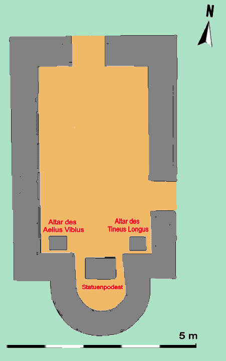 Plan of Antenociticustemple in Benwell/Condercum (GB)